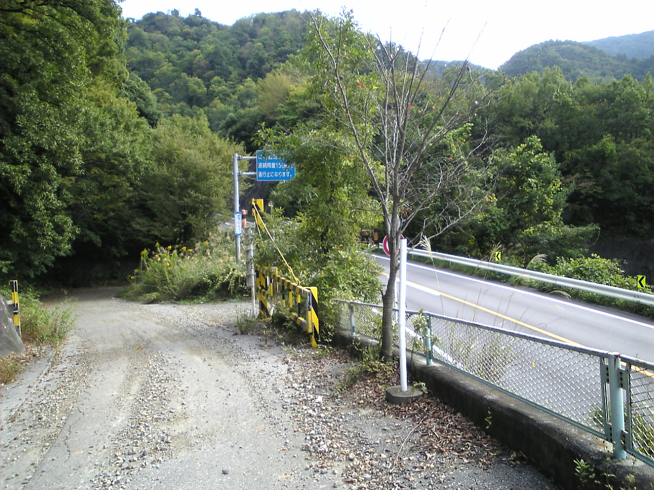 The Yamanashi Prefectural Road Route 113 in Kofu City